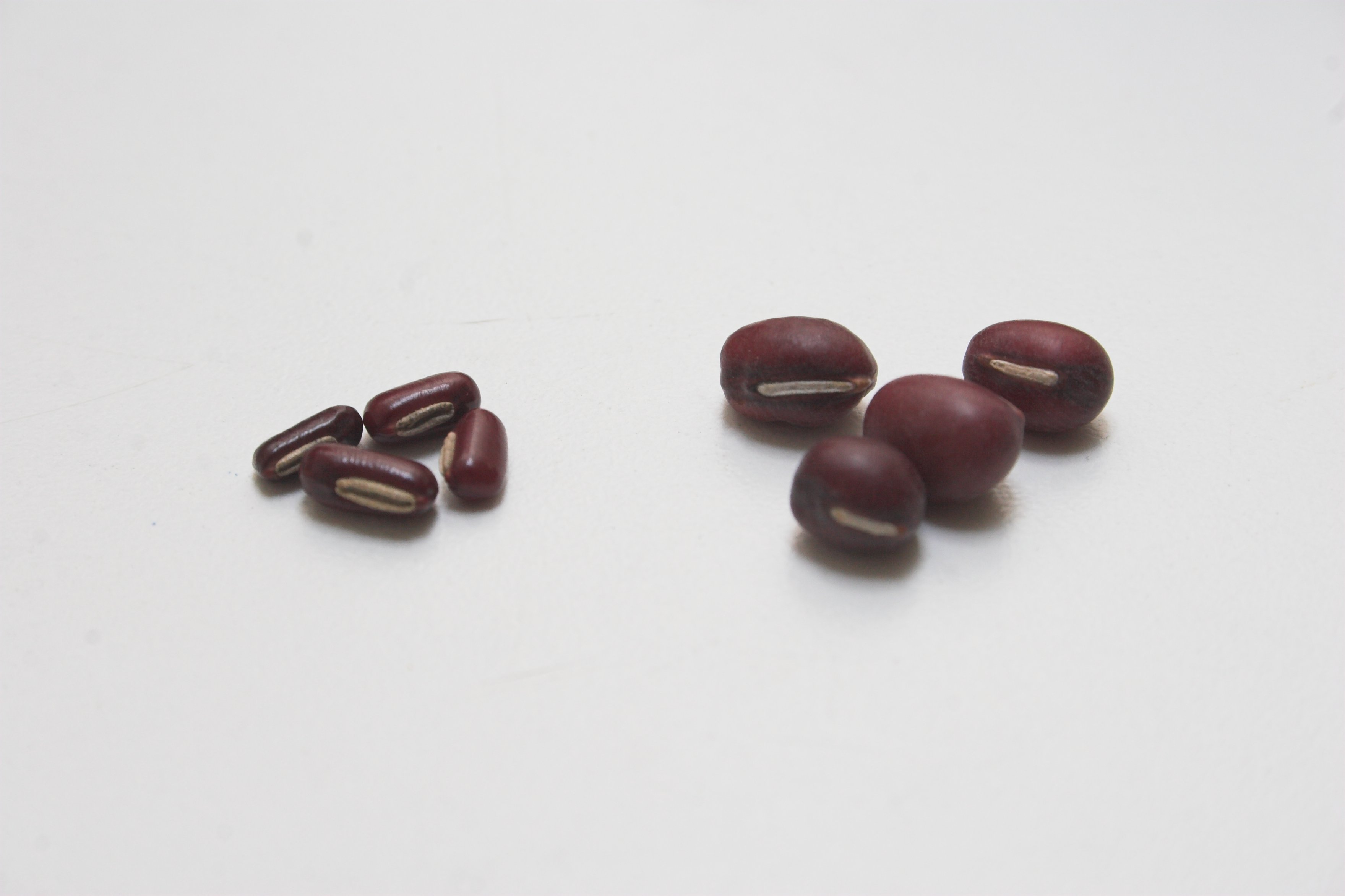 Rice Bean (Left) and Red Bean(Right)